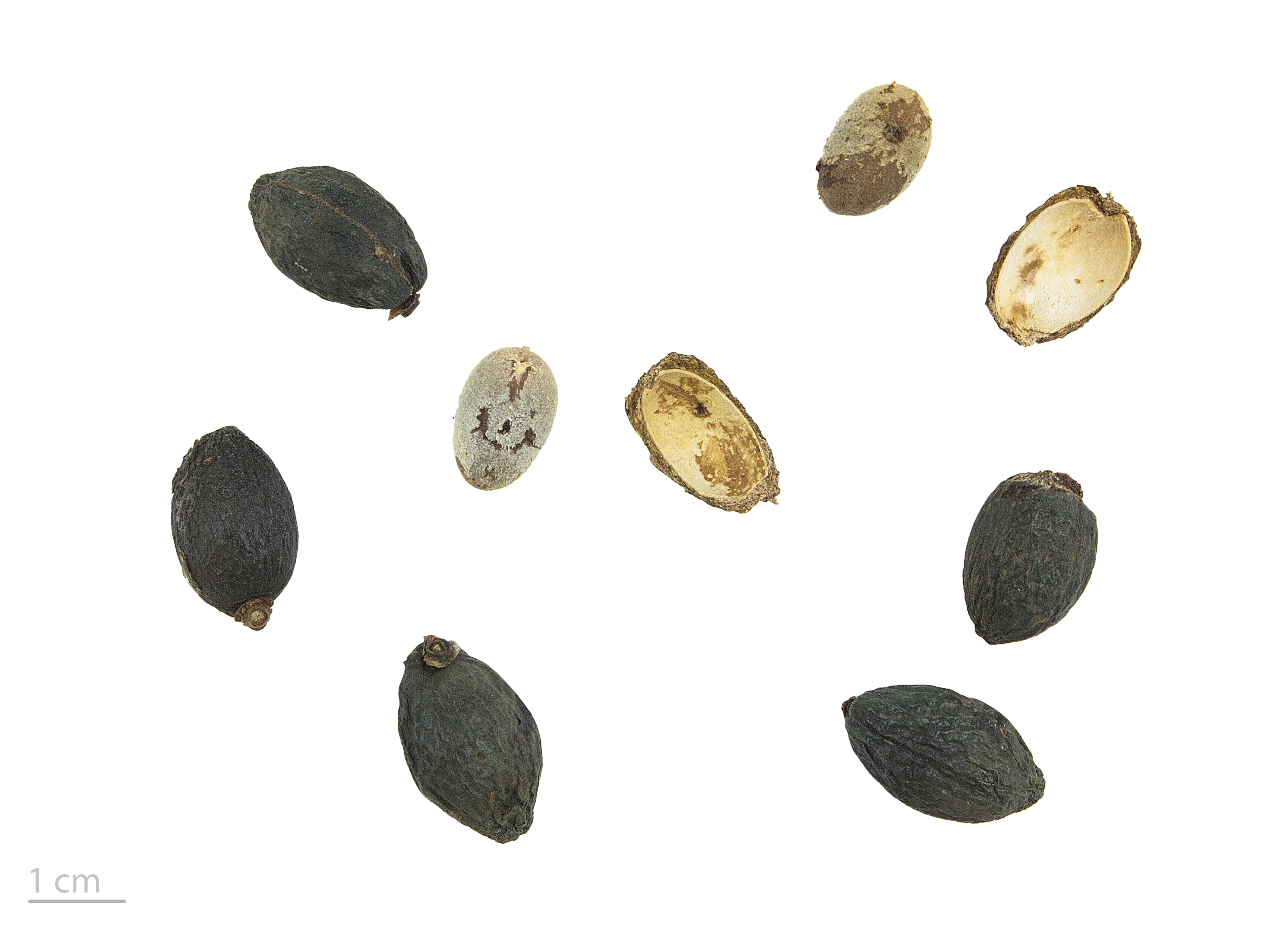 Livistona chinensis, Chinese fan palm, fruit and seeds